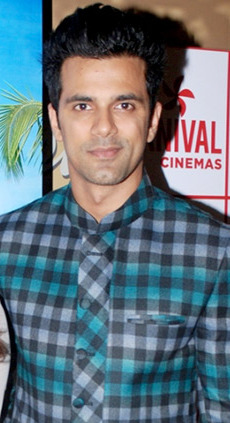 Actor Anuj Sachdeva at the special screening of Love Shagun